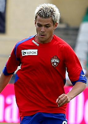 Czech midfielder Luboš Kalouda